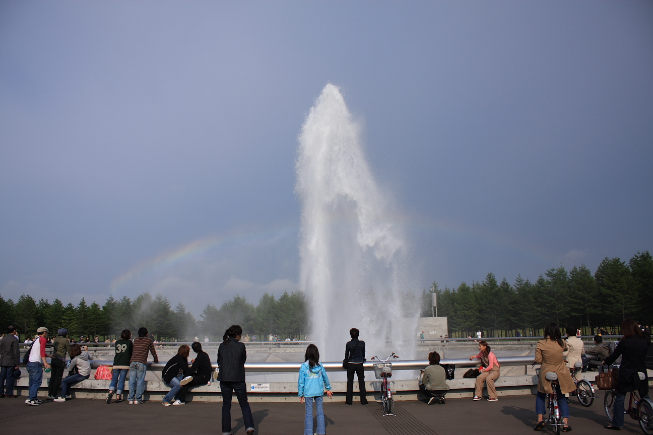 Moerenuma Park Sea fountain - モエレ沼公園 海の噴水